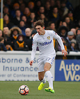 Billy Whitehouse of Leeds United during the Emirates FA Cup Fourth Round match between Sutton United and Leeds United at the Borough Sports Ground on January 29, 2017